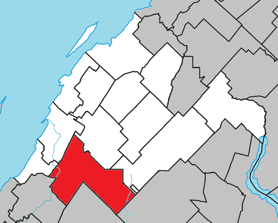 Location of Saint-Antonin, Quebec within Rivière-du-Loup Regional County Municipality.